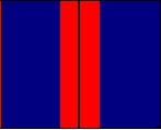 Unit Colour Patch of the Corps of Staff Cadets (Royal Military College - Duntroon).